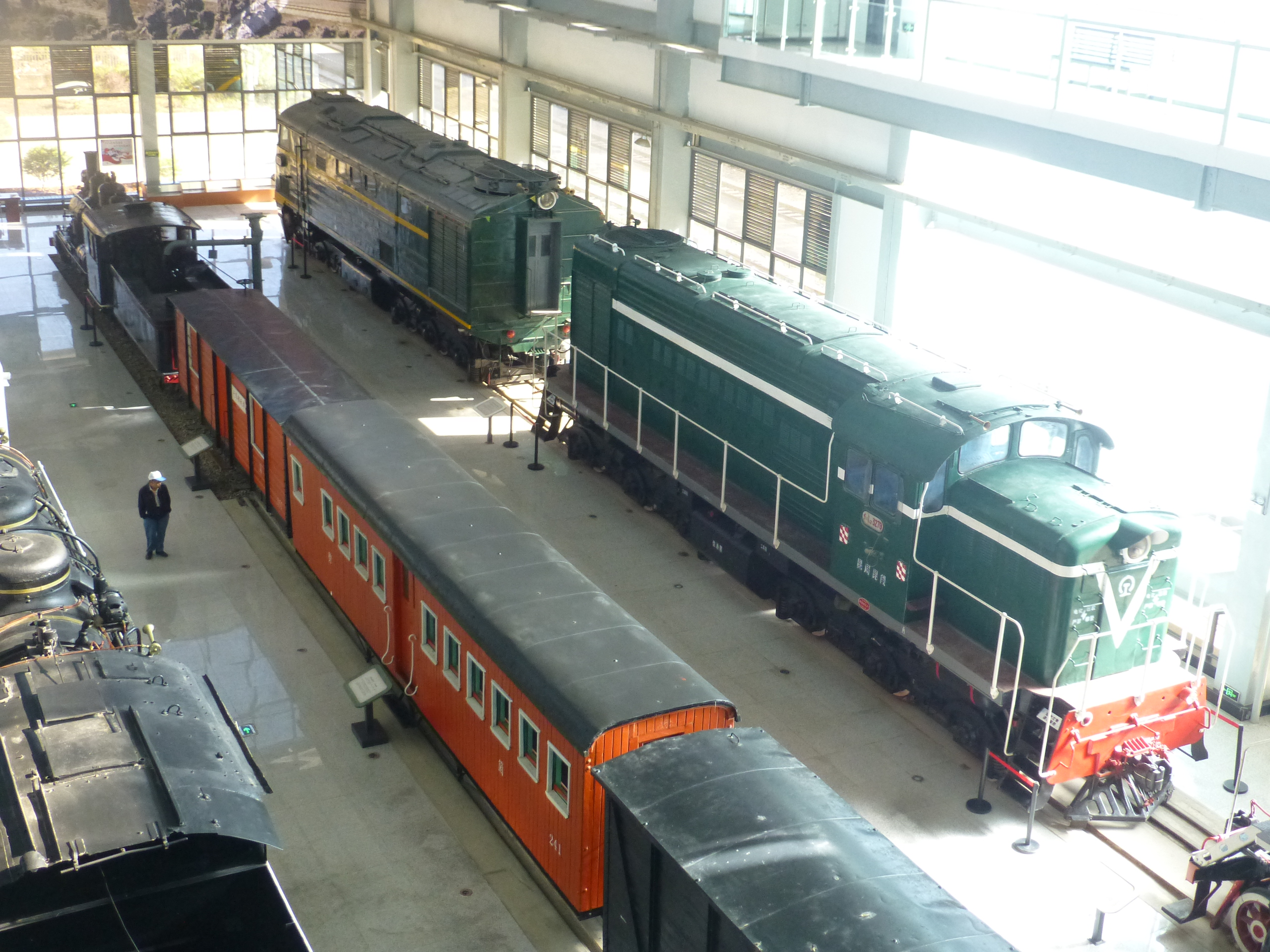 Rolling stock on display in the Yunnan Railway Museum (Kunming North Railway Station)